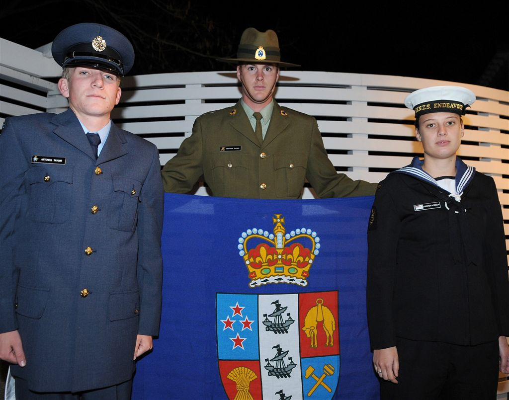 The Governor-General's new flag was flown for the first time at a ceremony at Government House Auckland on 5 June 2008. Pictured with the new flag are the three military personnel who raised new flag and lowered the old flag. They were (from left): Aircraftsman Mitchell Taylor, Private Jo Tucker and Able Communications Operator Kirsten Hobson.